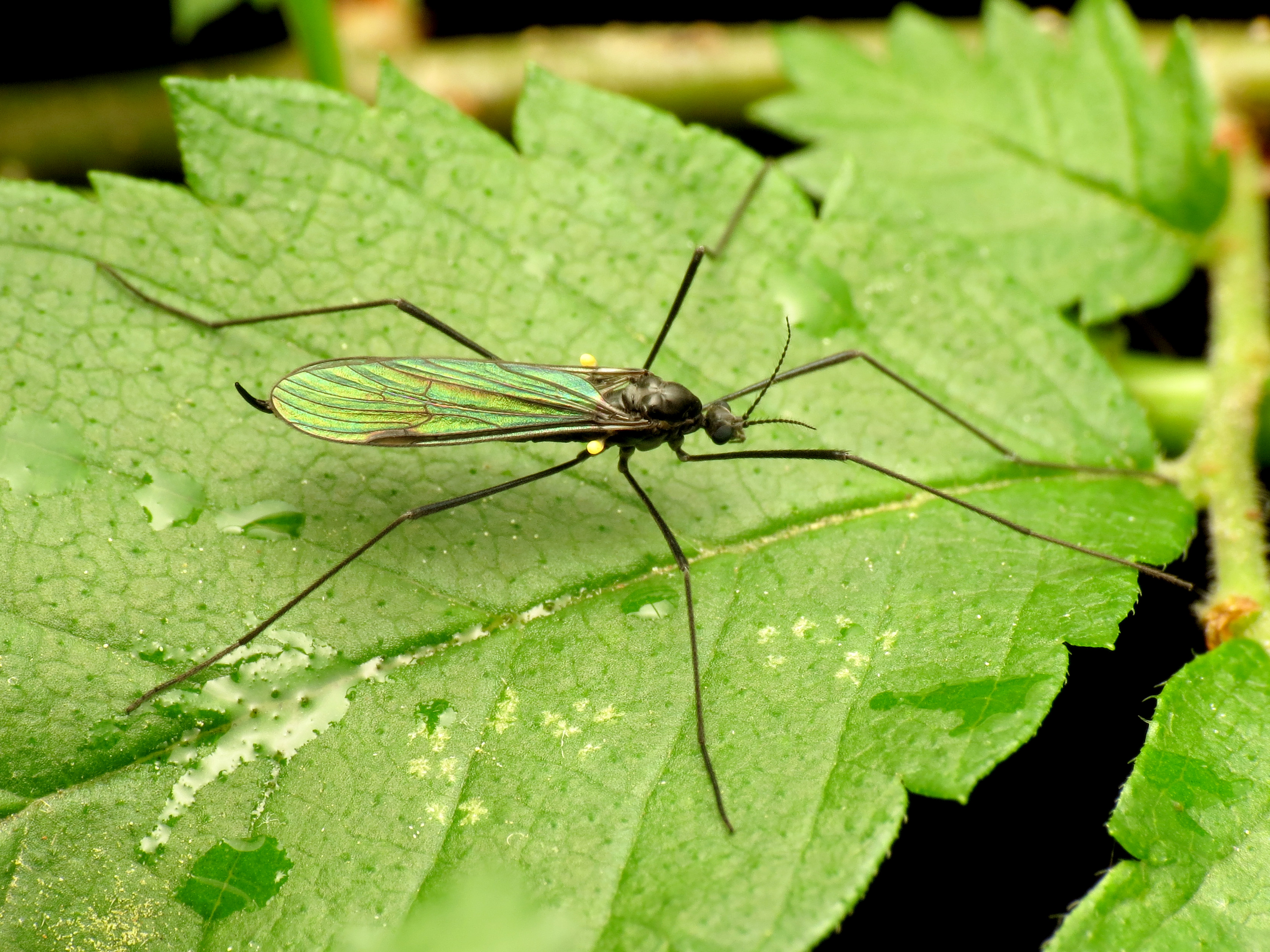 Gnophomyia tristissima. Rock Creek Park, Washington, DC, USA.